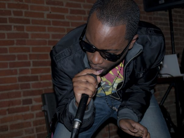 Jon Connor